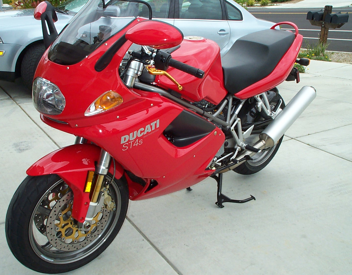 Picture of front of 2002 Ducati ST4s